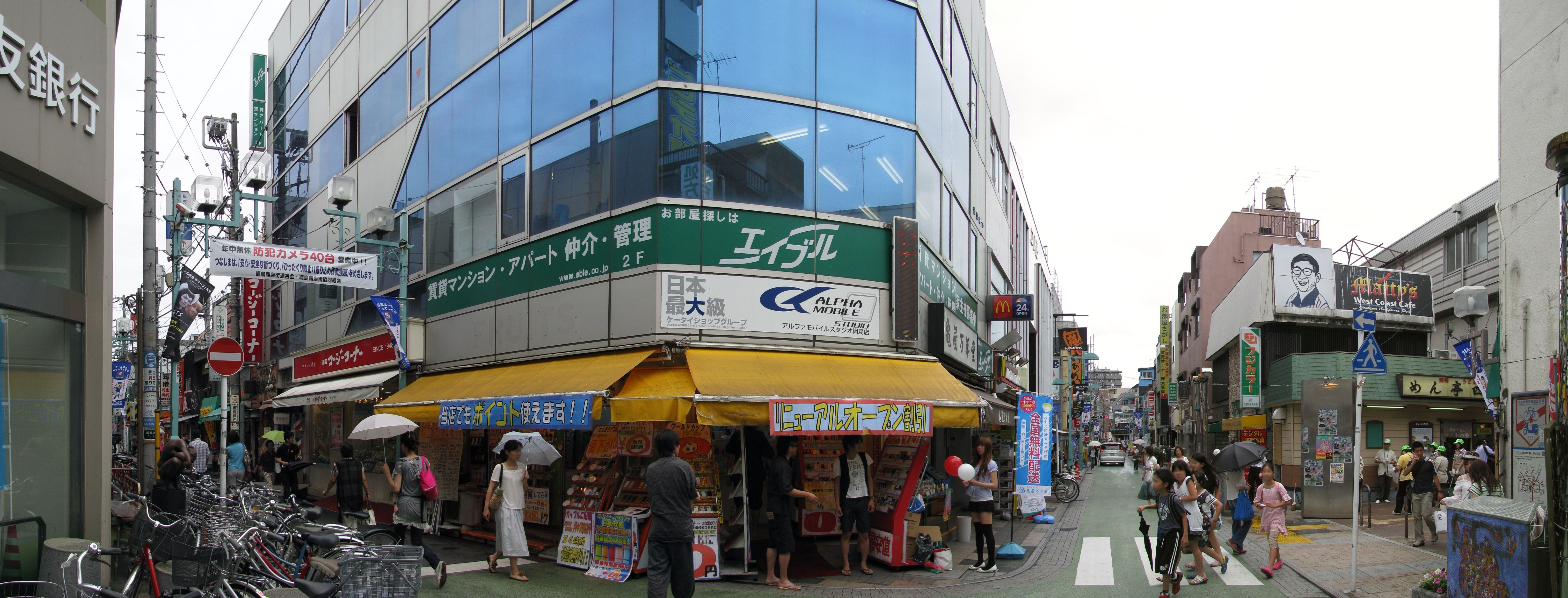 West side of Tsunashima Station in Tsunashima, located in Kōhoku, Yokohama, Kanagawa, Japan.